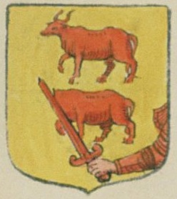 Coat of arms quoted under name "Etienne de Forcade, Ecr Sr de Laubeyran, démit en la ville de Casteljaloux" in Armorial Général de France by Charles d'Hozier